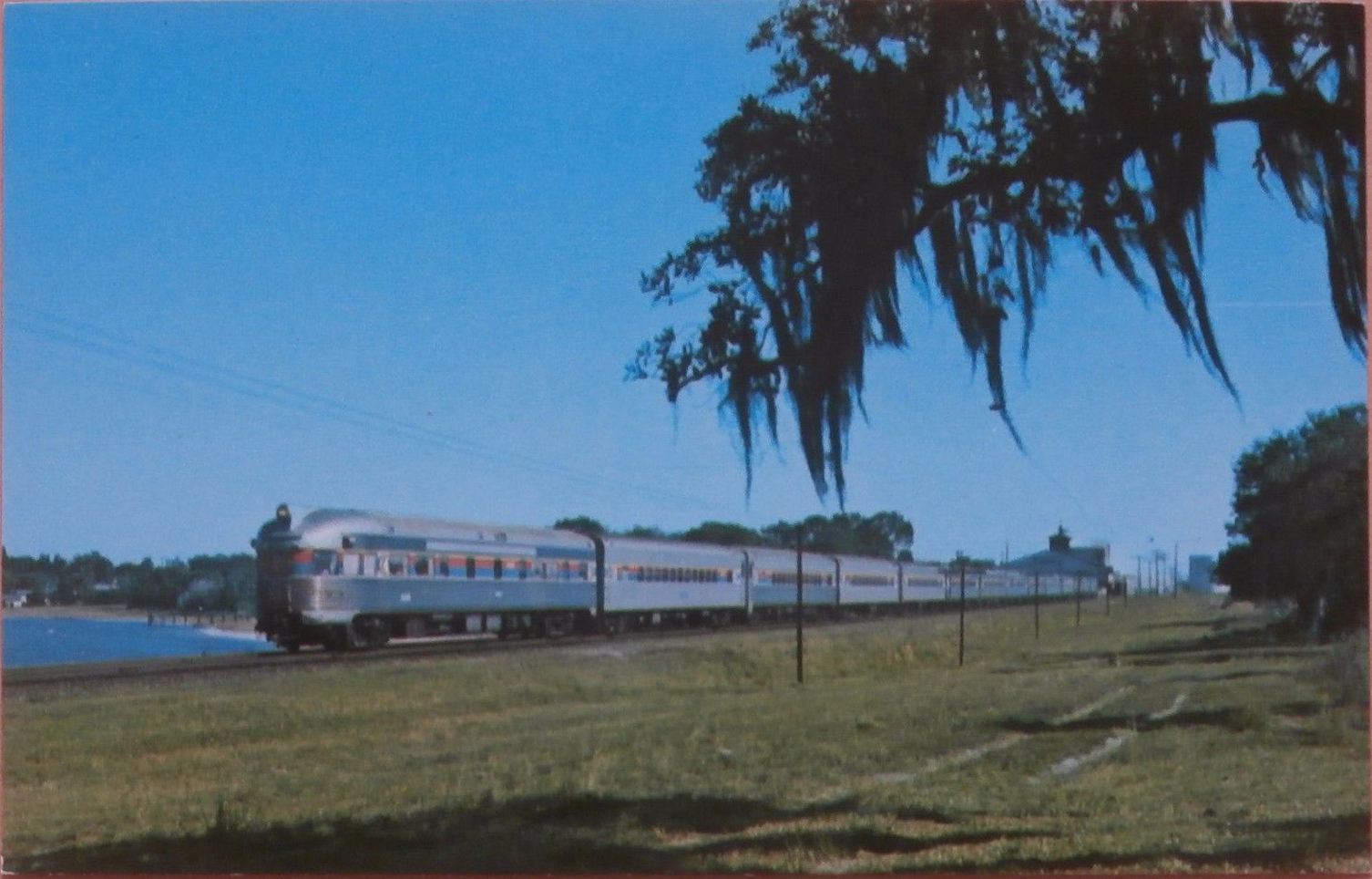 Postcard of the northbound Champion next to Lake Alfred in Lake Alfred, Florida